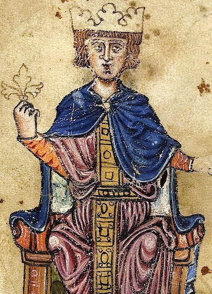 Frederick II, Holy Roman Emperor.